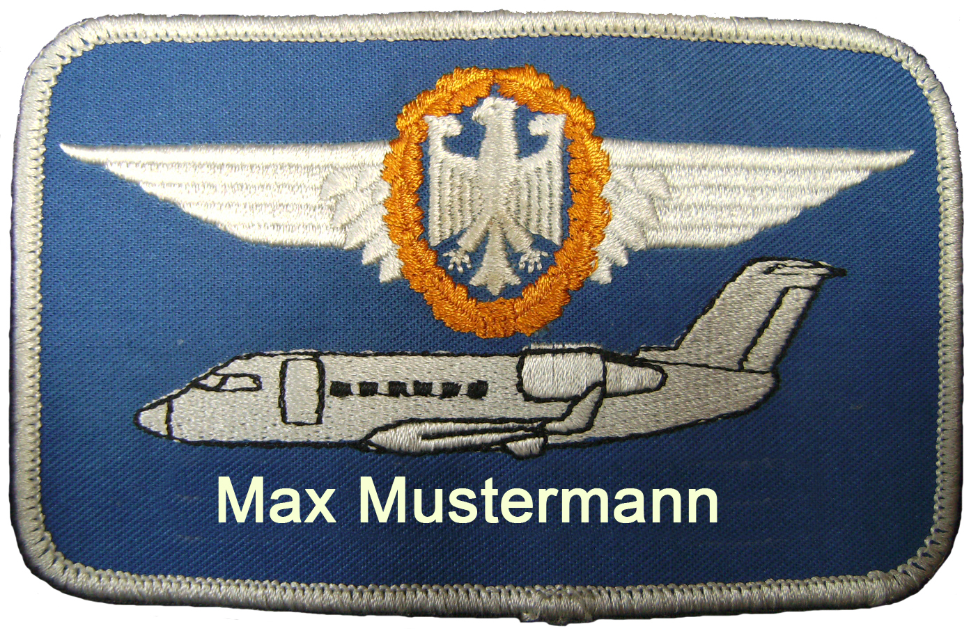 Name Tag with Pilots Bage and Challenger, German Air Force